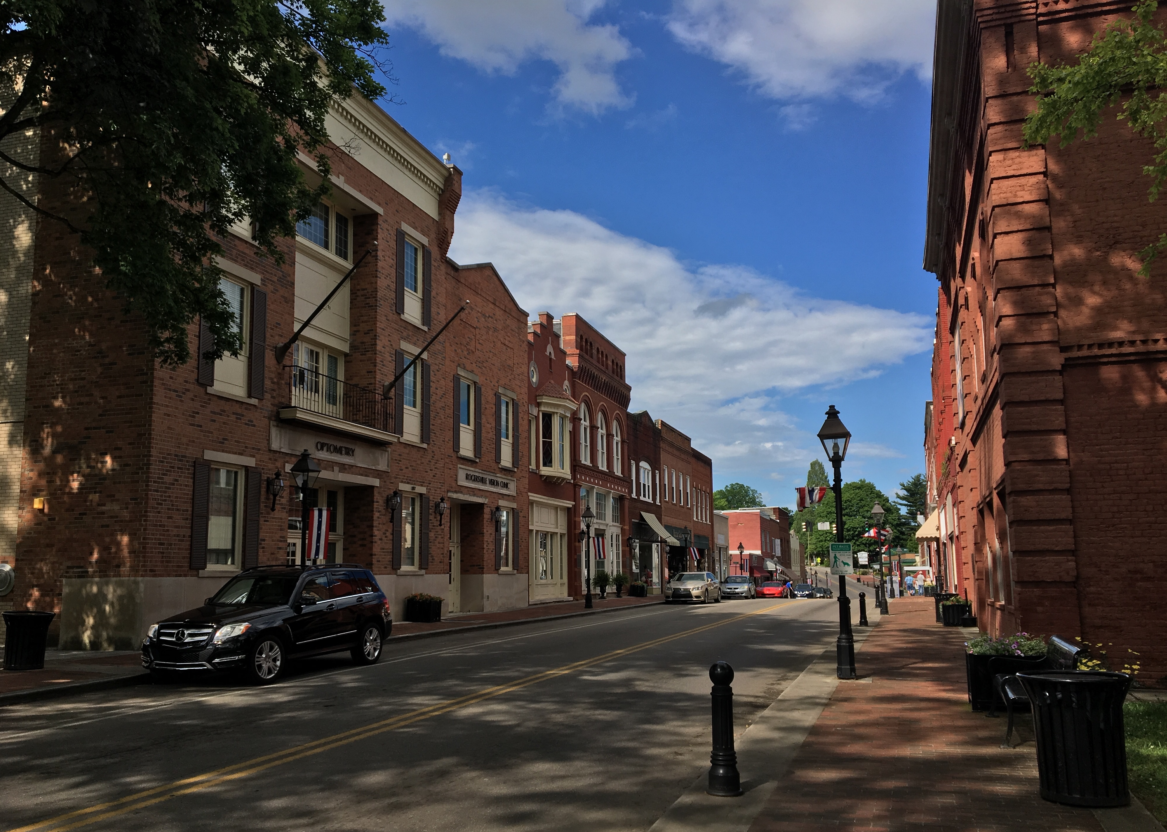 Downtown Rogersville, Tennessee, a district on the National Register of Historic Places, in June 2020. Taken in front of the Hawkins County Courthouse.